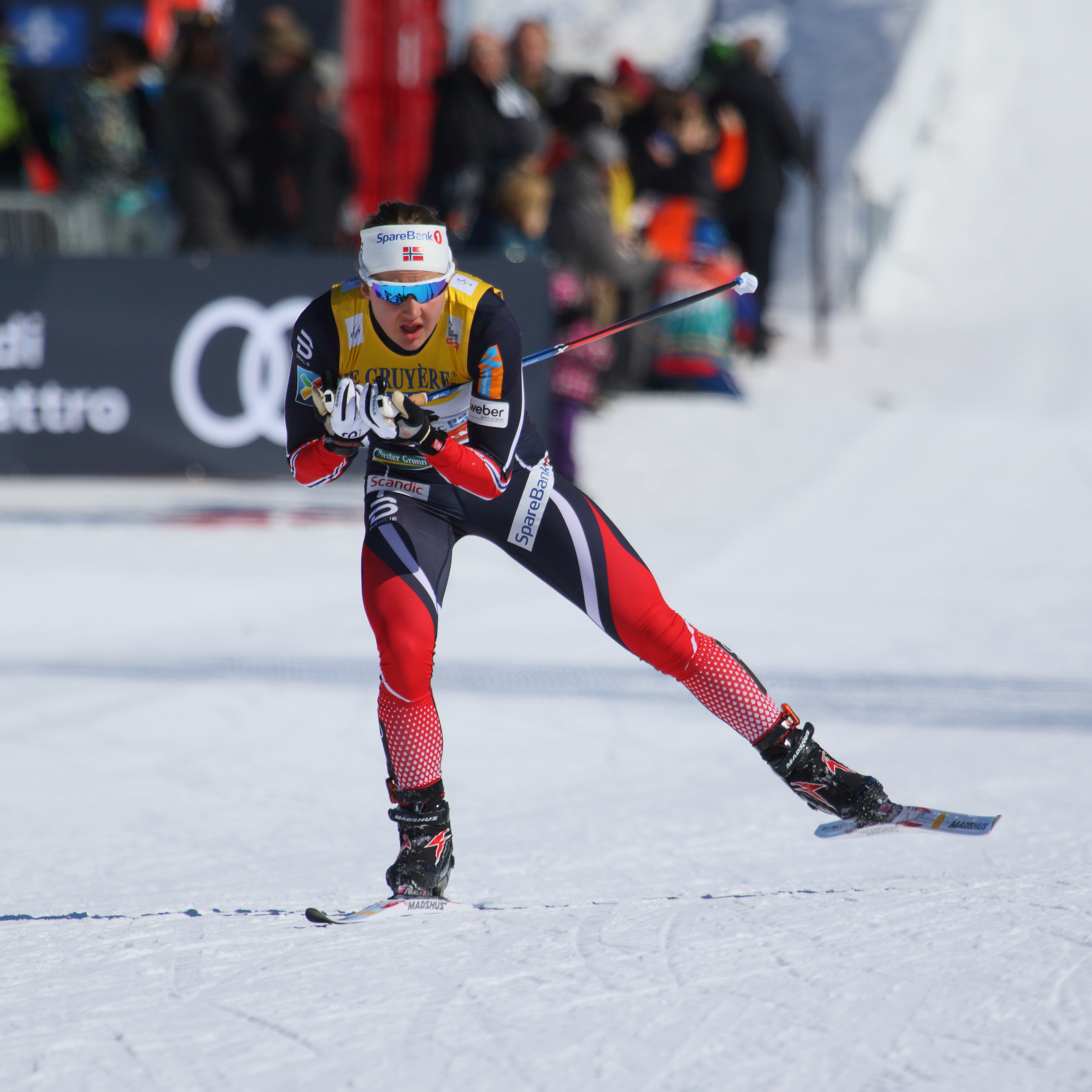 Ingvild Flugstad Østberg, 2017 Ski Tour Canada, Quebec City.